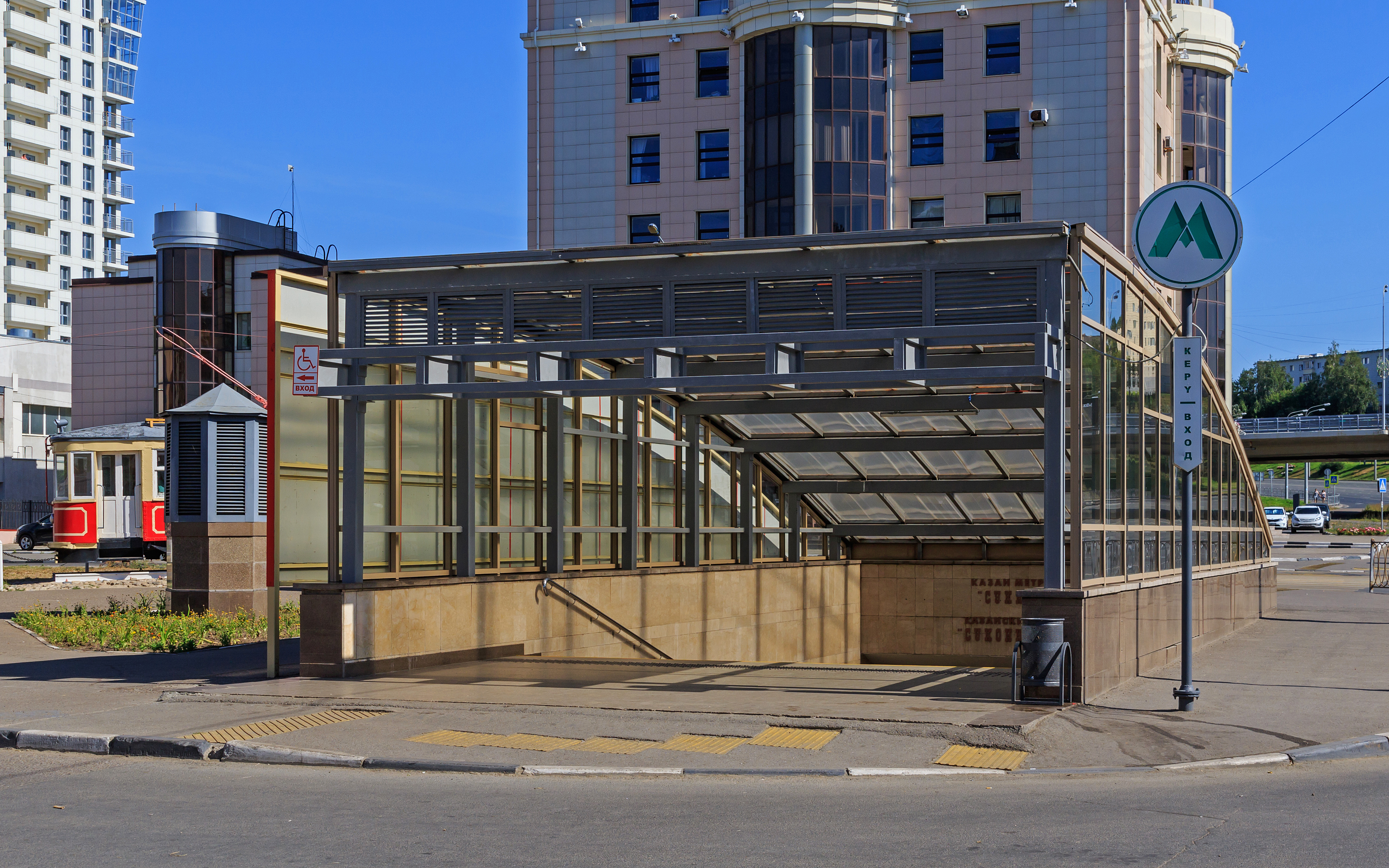 Entrance of Sukonnaya Sloboda metro station in Kazan, Russia